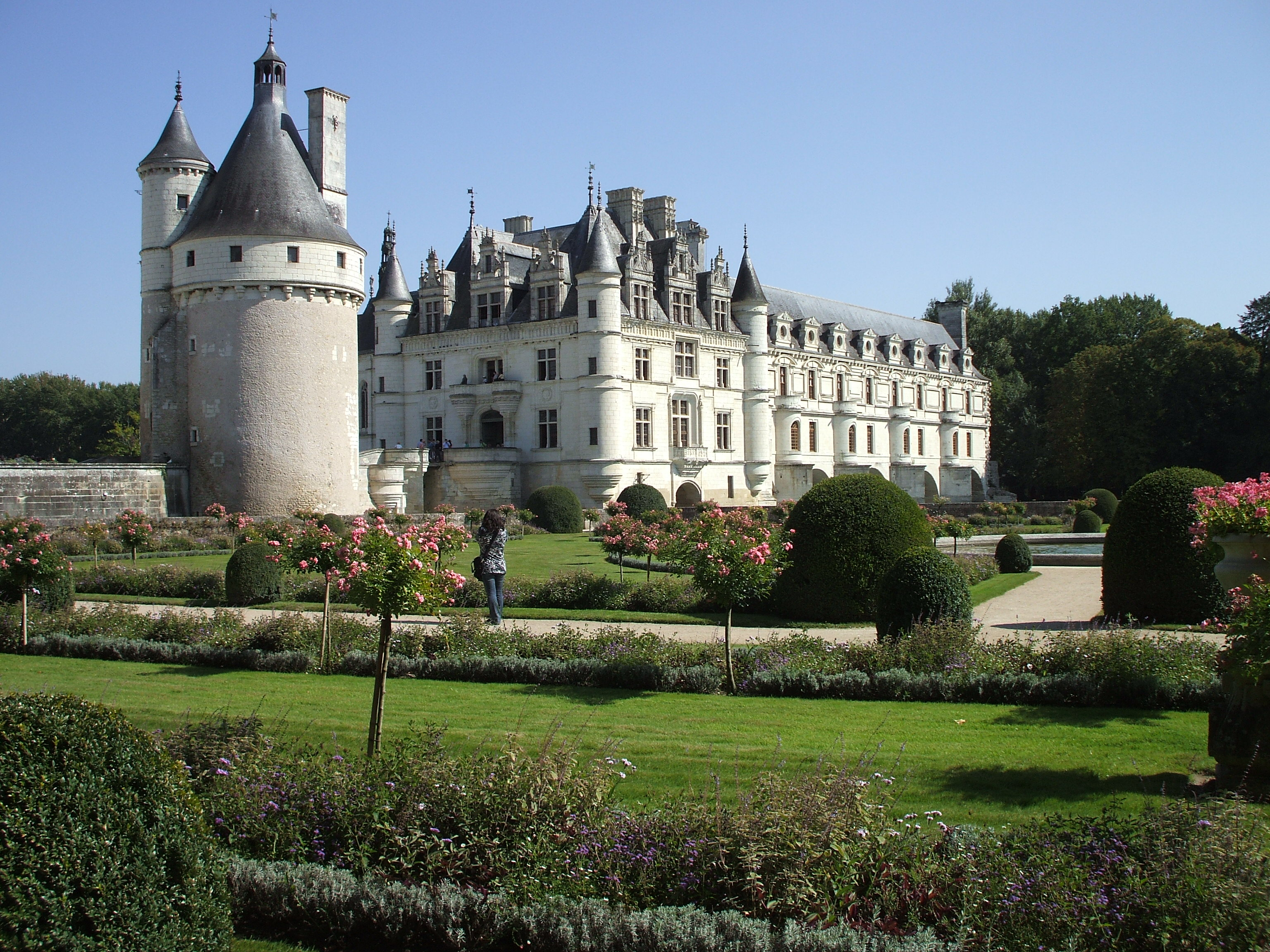 View of Chateau de Chenonceau from the formal gardens to its west.